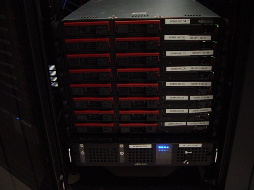 This is a picture of the servers on the first day of install.